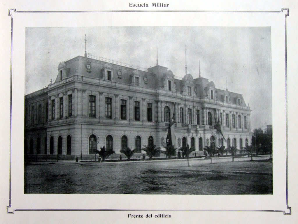 Ejército de Chile álbum gráfico 1910: Escuela Militar, Escuela de Suboficiales